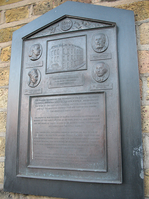 Plaque on the site of the Evelina Hospital. The plaque is on the corner of Southwark Bridge Road and what used to be Quilp Street (now just a path through Mint Street Park). The park is on the site of the original Evelina Children's Hospital. For a view of the park see 1750129. According to the plaque, the hospital opened in 1869, founded by Baron Ferdinand de Rothschild and named after his late wife. The hospital moved to newer buildings on the Guy's Hospital site in 1976.